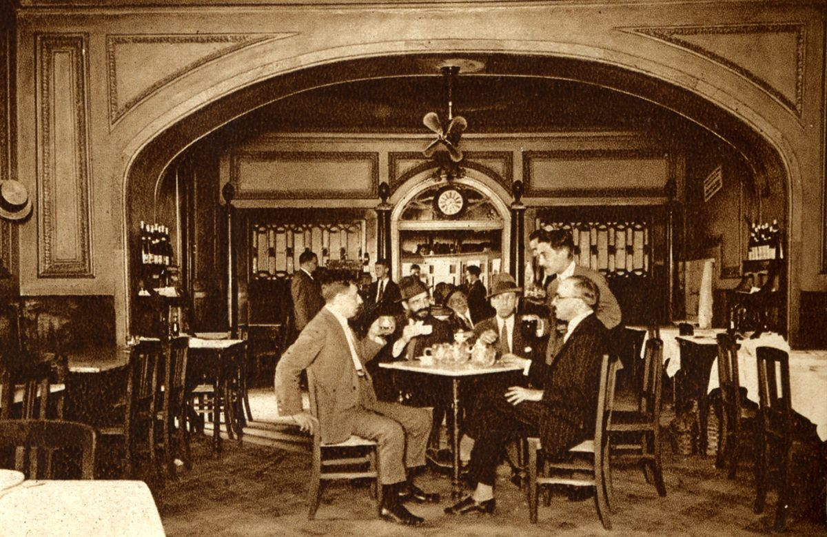 Unknwon man, Raul Leal, António Botto, Augusto Ferreira Gomes and Fernando Pessoa at Café Martinho da Arcada, 1928